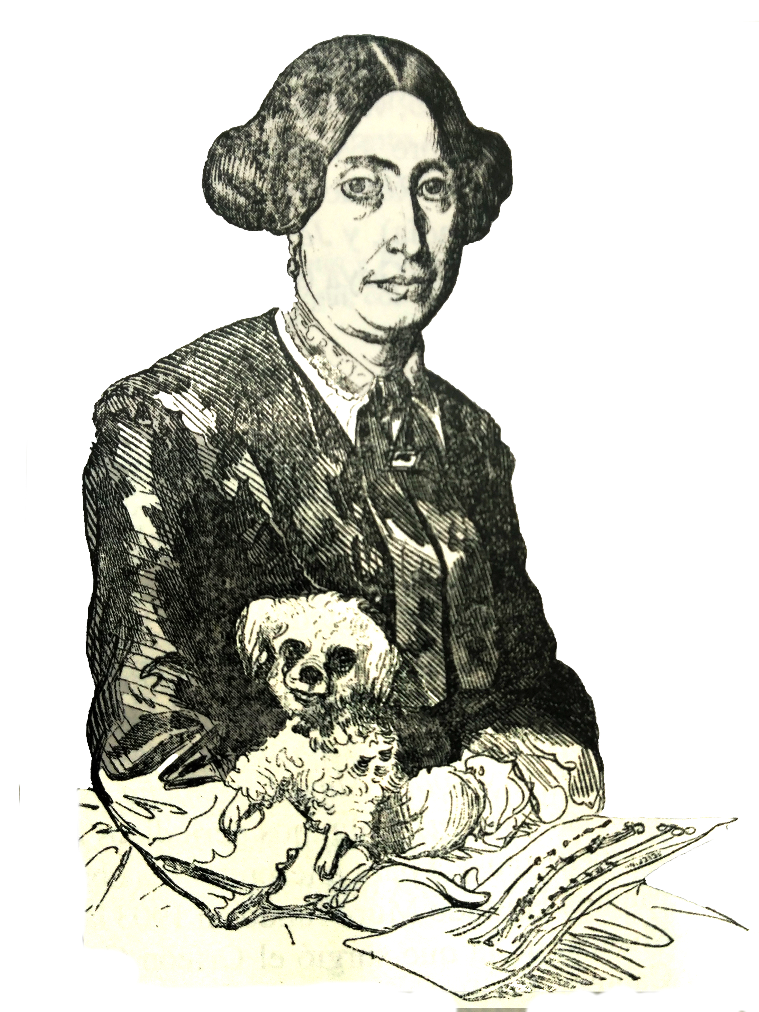 Litografía de Paulina Cabrero Martínez